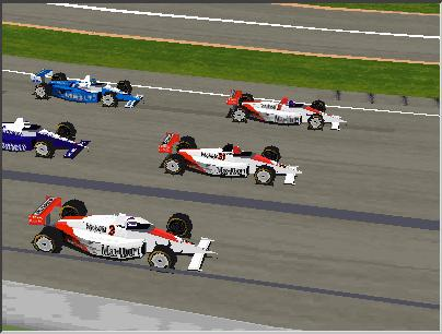 This is a screenshot of a 1995 DOS game.